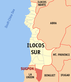 Map of Ilocos Sur showing the location of Sugpon